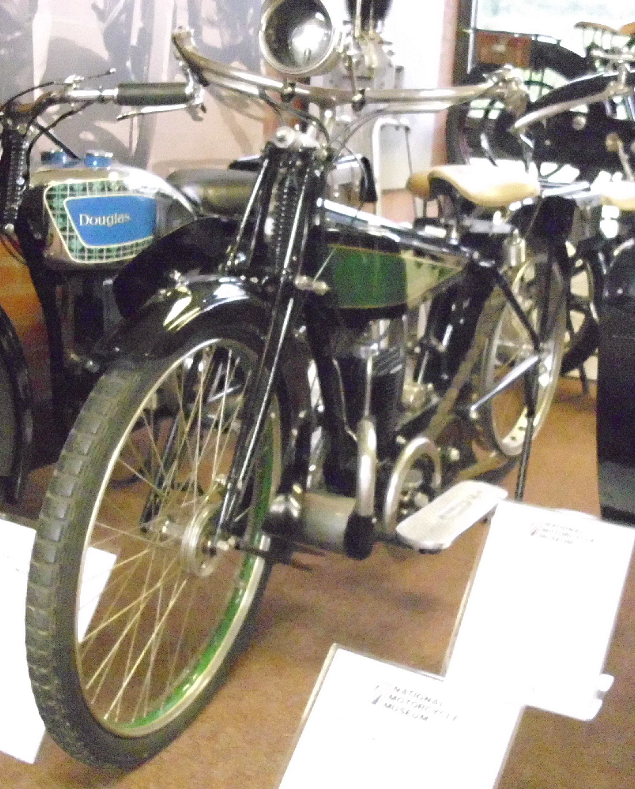 Alldays Allon Motorrad 1915